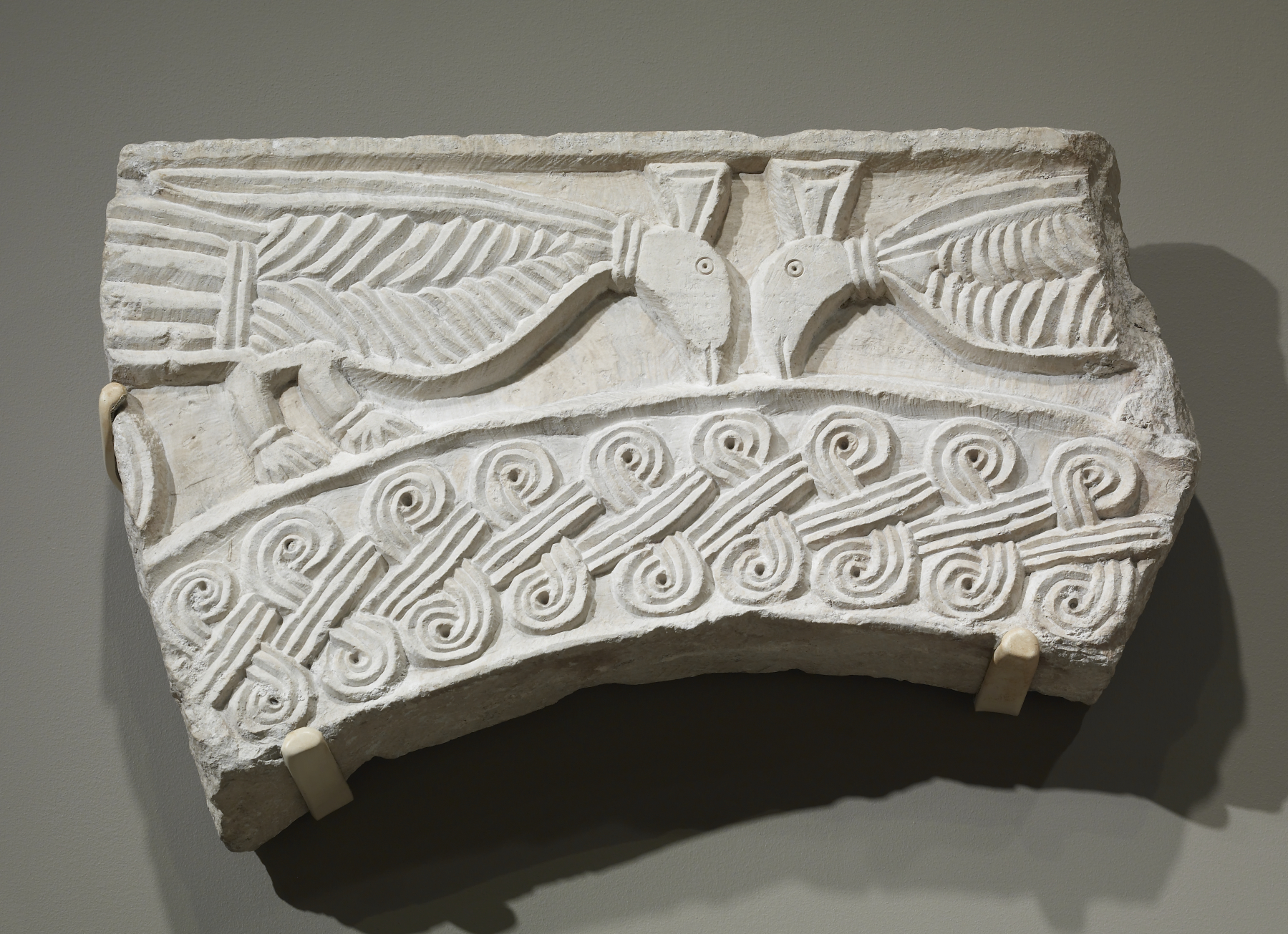 This relief is a fragment of a ciborium, a free-standing stone canopy supported by columns, designed to cover the altar or baptismal font of a church. The relief shows two confronted peacocks, symbols of paradise and immortality in early Christian and Byzantine art, placed above an interlace border that once outlined the open arch of the ciborium. Relatively late in date, such architectural elements were carved after the Langobards had settled permanently in Italy.